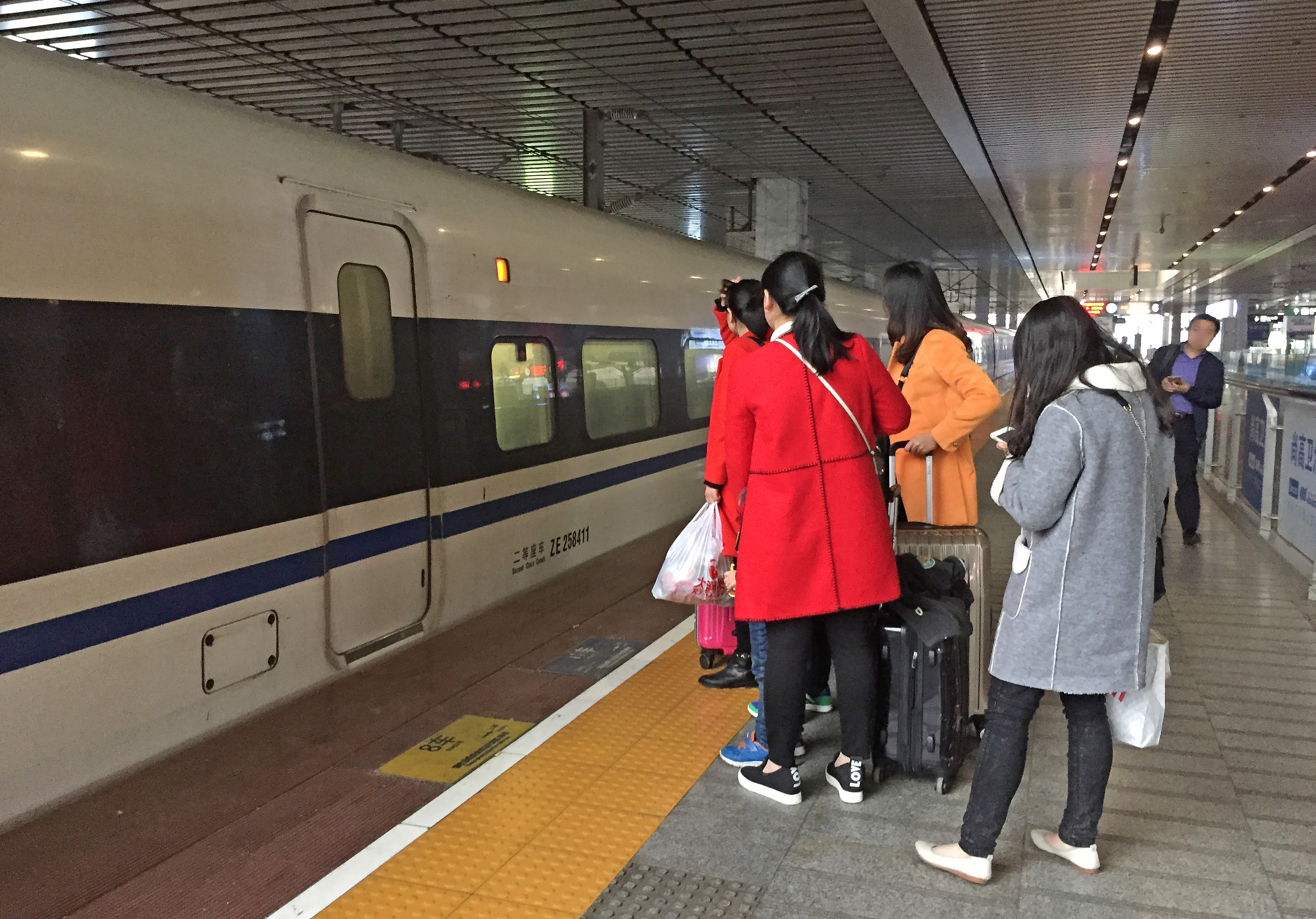 Ran by CRH380AL-2584.